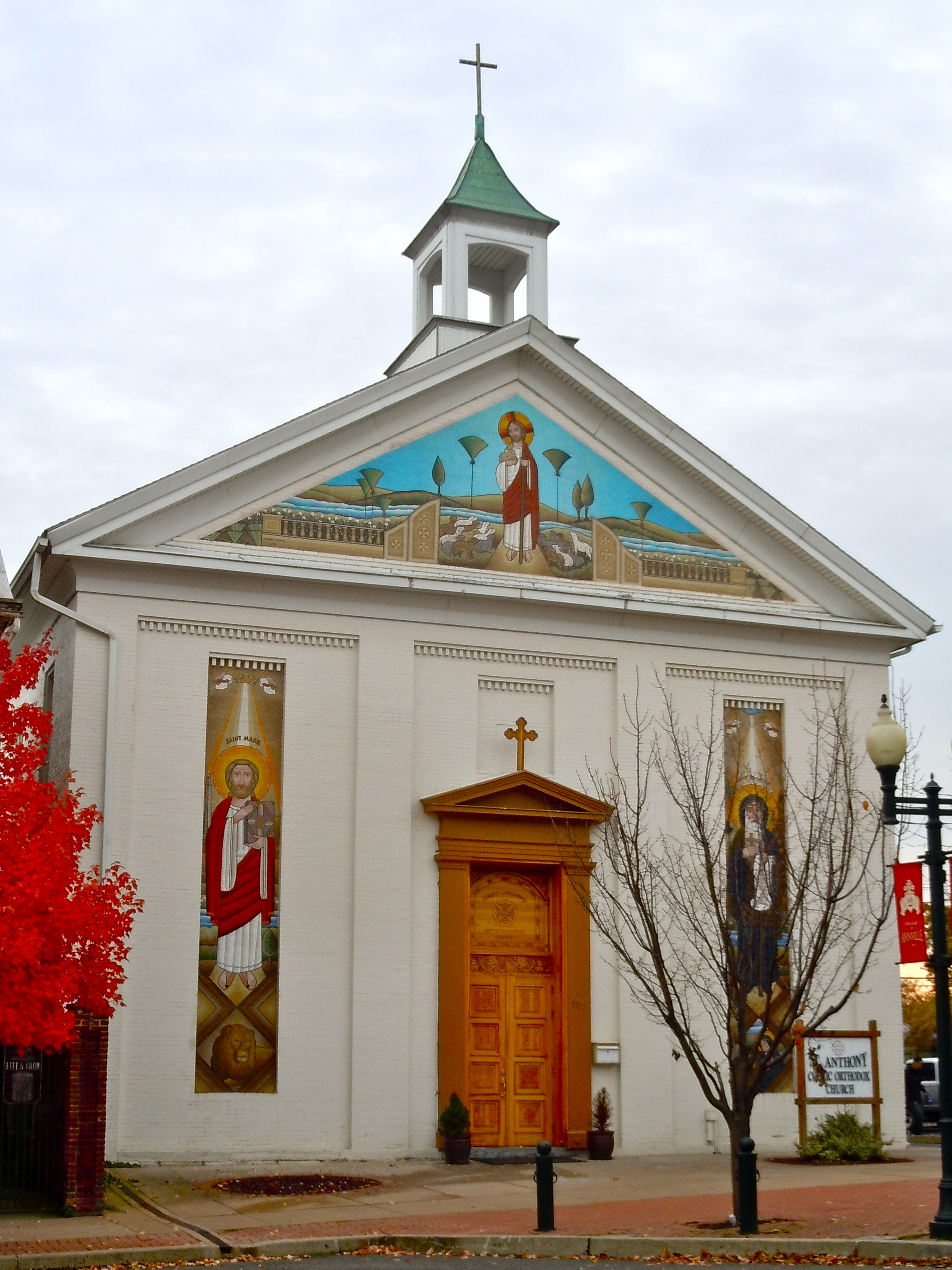 Building in Annville Historic District on the NRHP since April 30, 1979. The historic district is roughly bounded by the Quittapahilla Creek and Lebanon, Saylor, and Marshall Streets in Annville Township, Lebanon County, Pennsylvania. This building is at 116 West Main Street (US 422) and dates to 1861. Formerly known as St. Paul's Apostolic Church, now known as St. Anthony's Coptic Church. The paintings on the front are new (since last Google Street View photos)